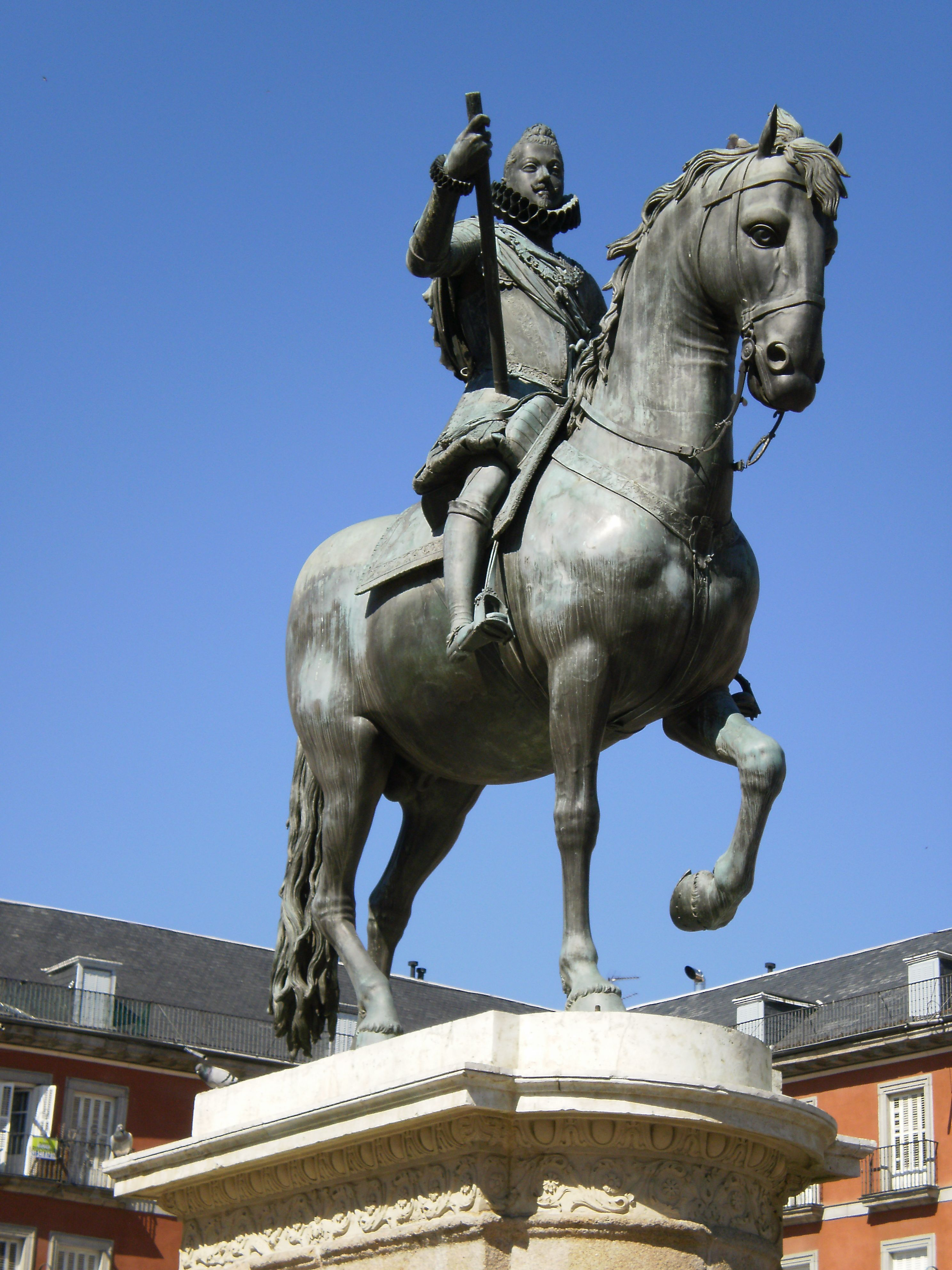 Statue of Philip III of Spain, Madrid